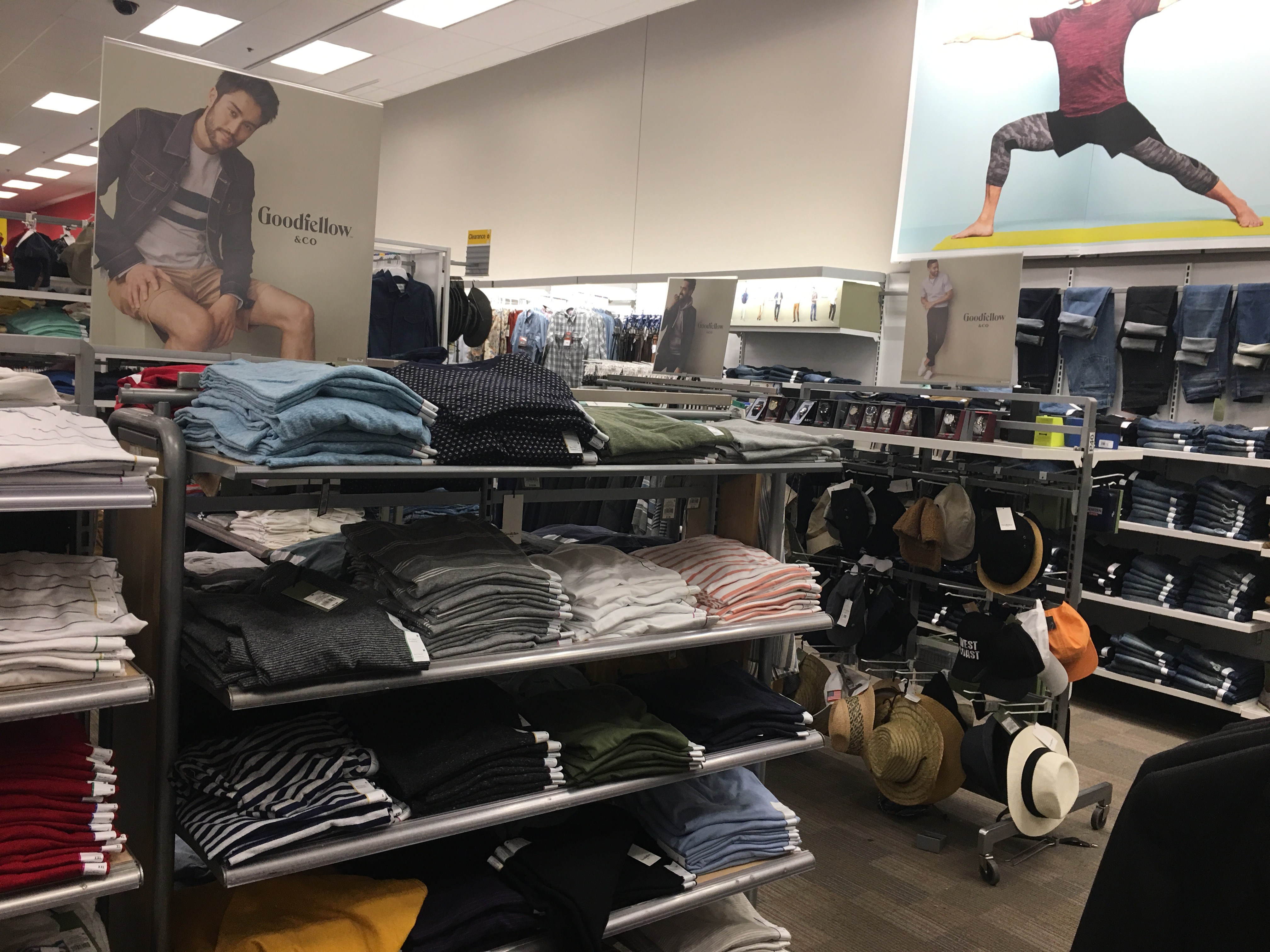 Target store